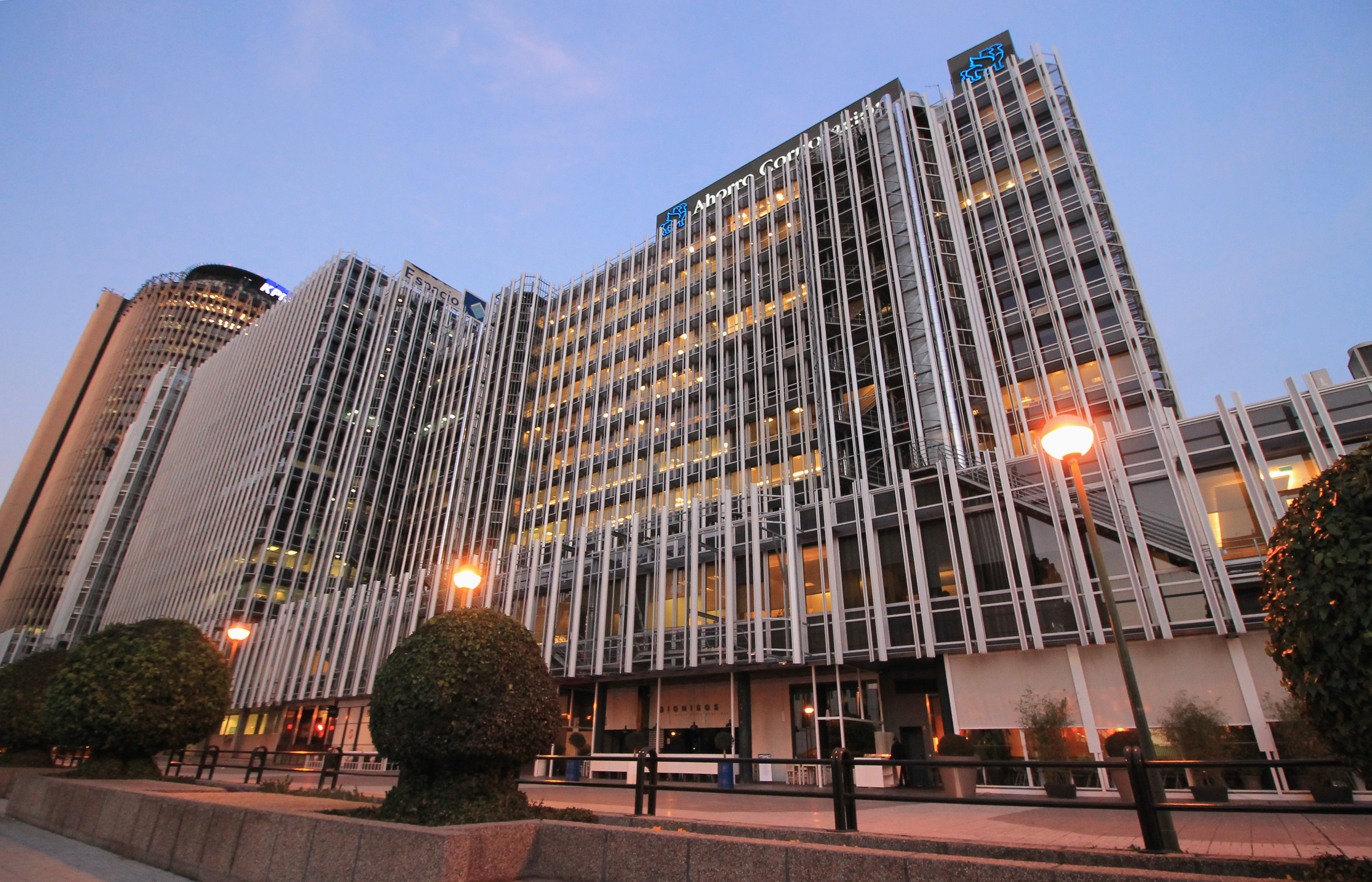 Façade of Cadagua buildings in Madrid (Spain).